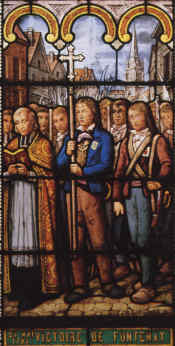 Stained glass window of the Saint Pauvin Church in Le Pin-en-Mauges, commemorating general Jacques Cathelineau's victory at Fontenay-le-Comte